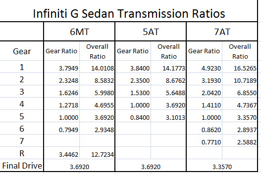 SnagIt picture of Infiniti G35 transmission ratios